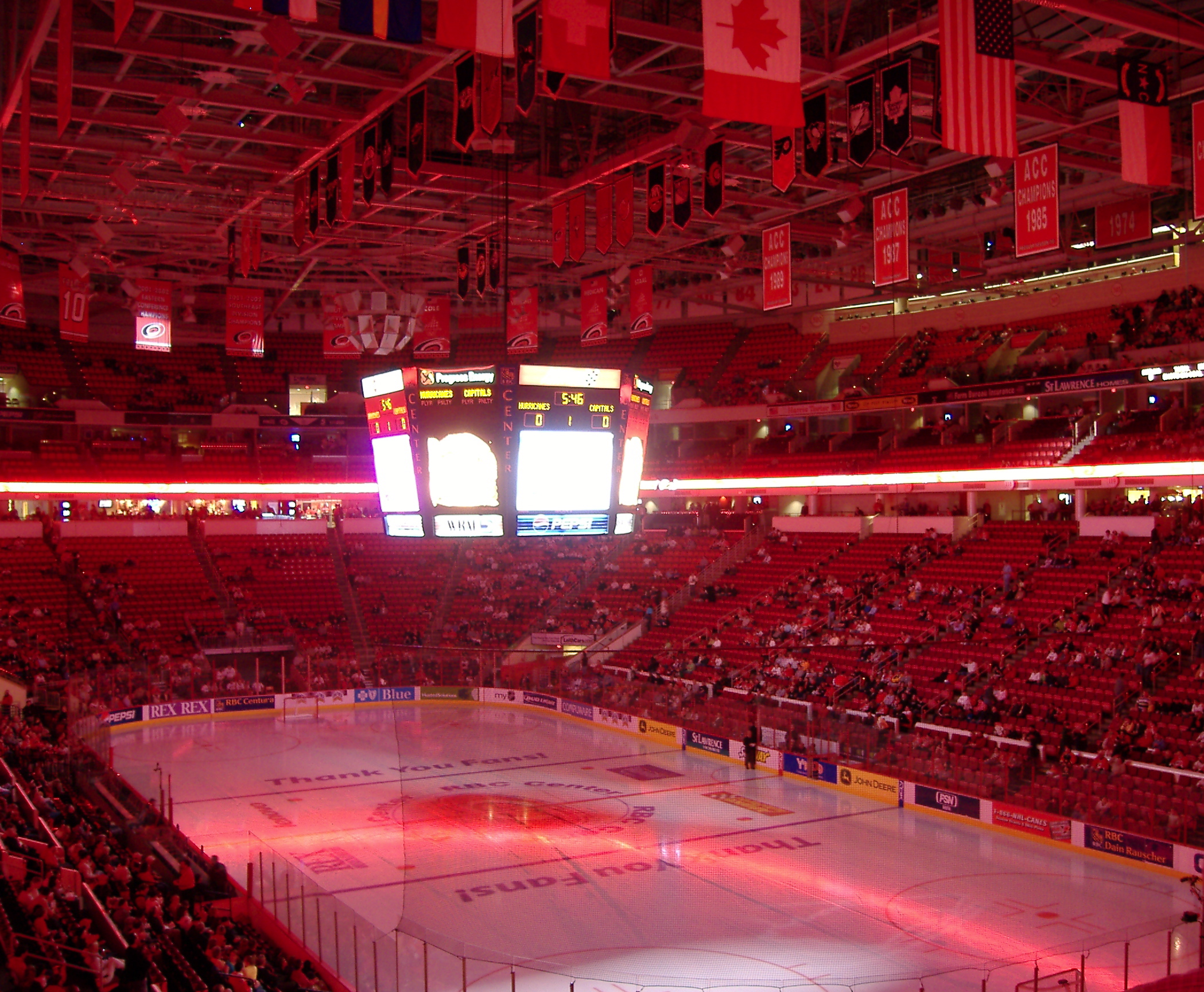 RBC_Center, Raleigh, Game 38: Washington Capitals vs. Carolina Hurricanes, 04/03/2006